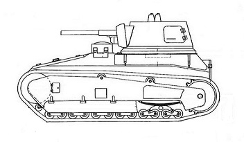 Leichttraktor profile.